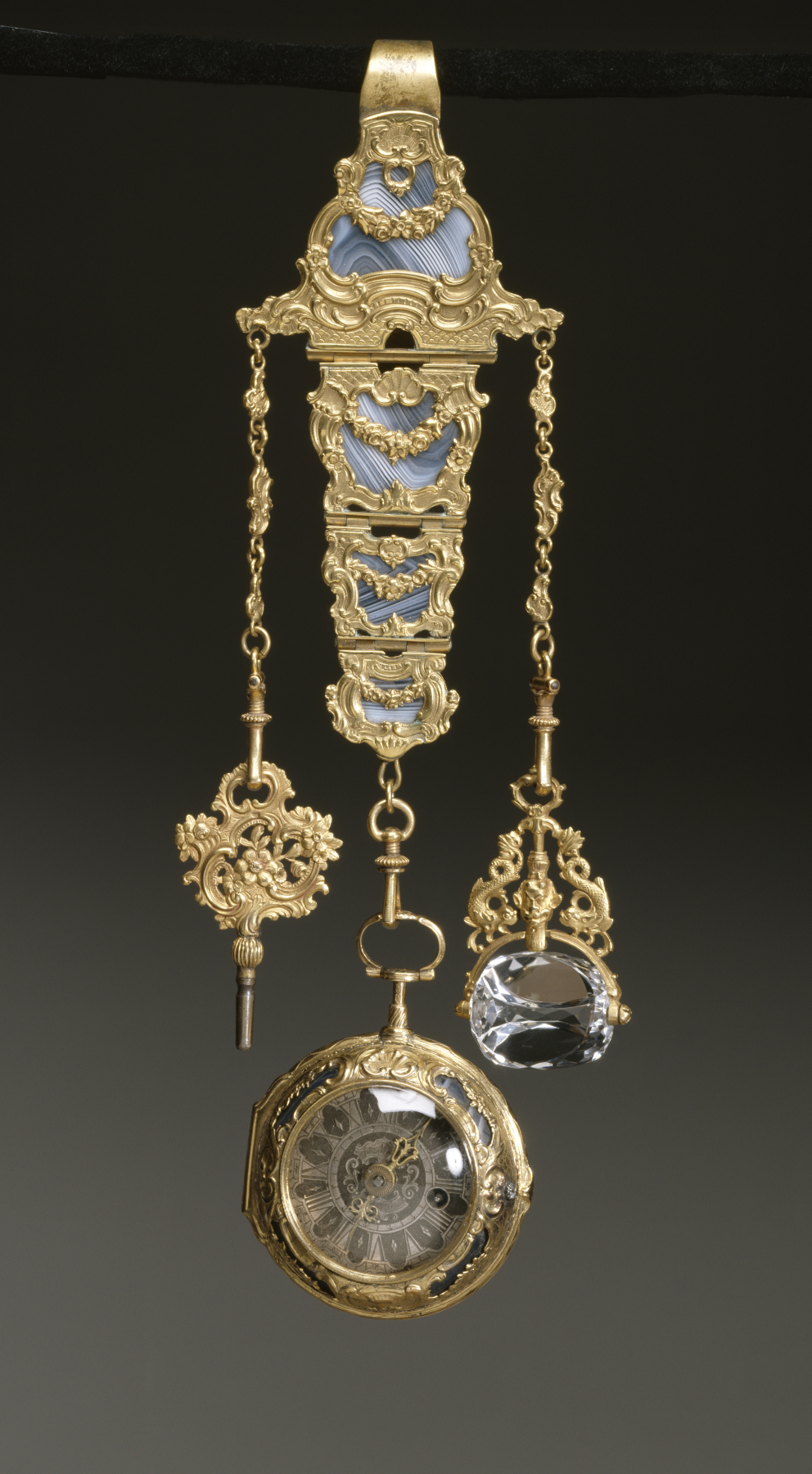 Decorative chatelaines were worn by men and women as pendants and multifunctional devices for carrying utensils like watches, signet seals, and sewing accessories. They were suspended from the waistband by means of the hook at the top, and the flexible, separate panels adjusted to the movements of the wearer. The watch and chatelaine are decorated with elaborate scrollwork and garlands over beautifully striated agate. The chatelaine is fitted with a watch key and a revolving rock crystal seal, neither of which were likely made at the same time as the chatelaine and watch.